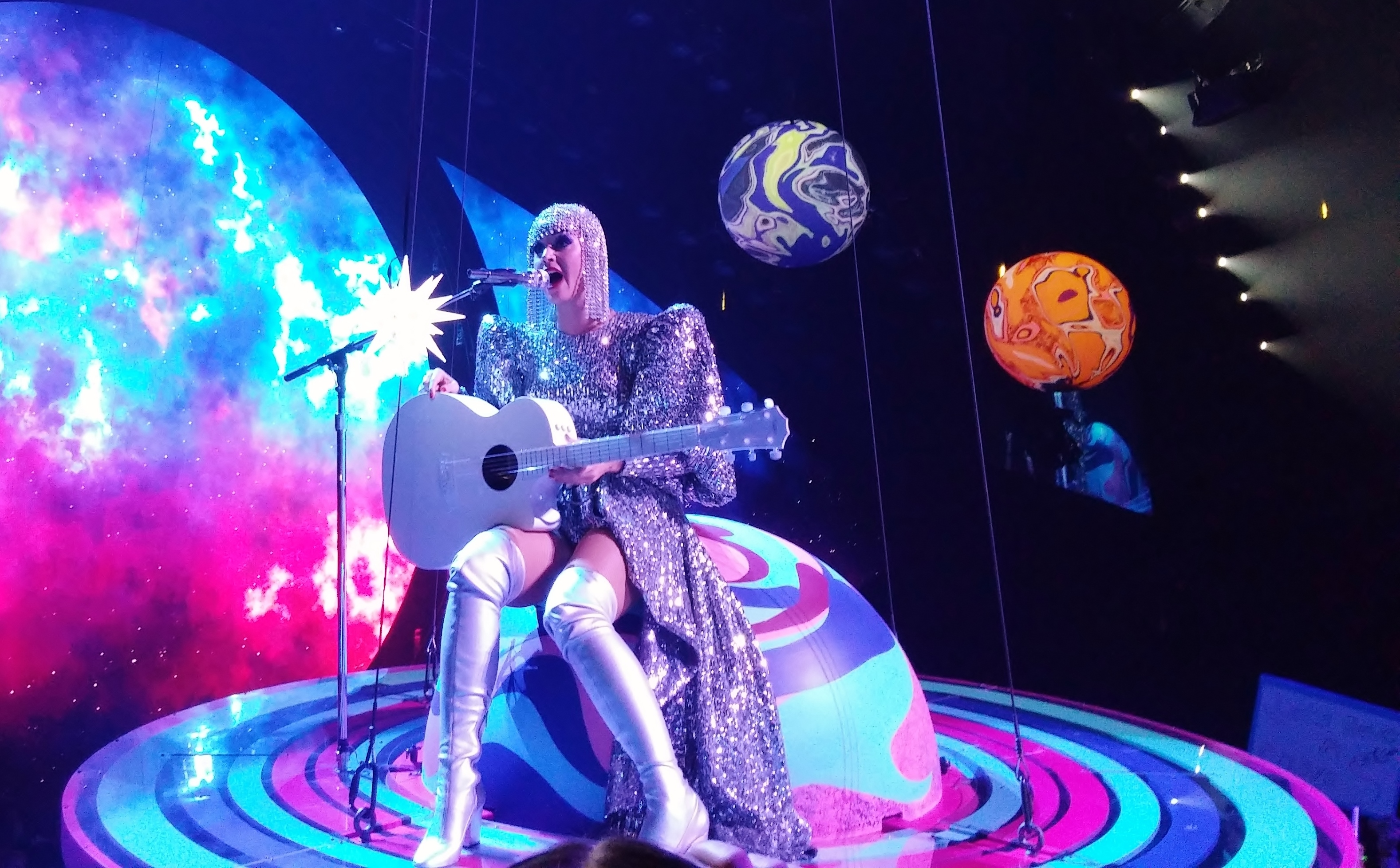 Katy Perry, Witness Tour, Bell Center, Montréal, 19 September 2017 (3)